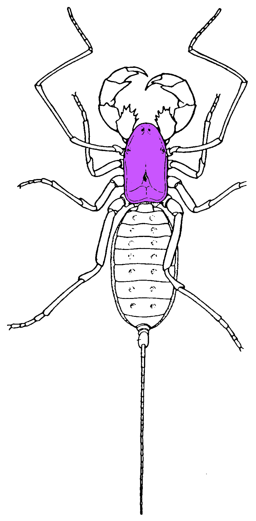 Modified from several sources.